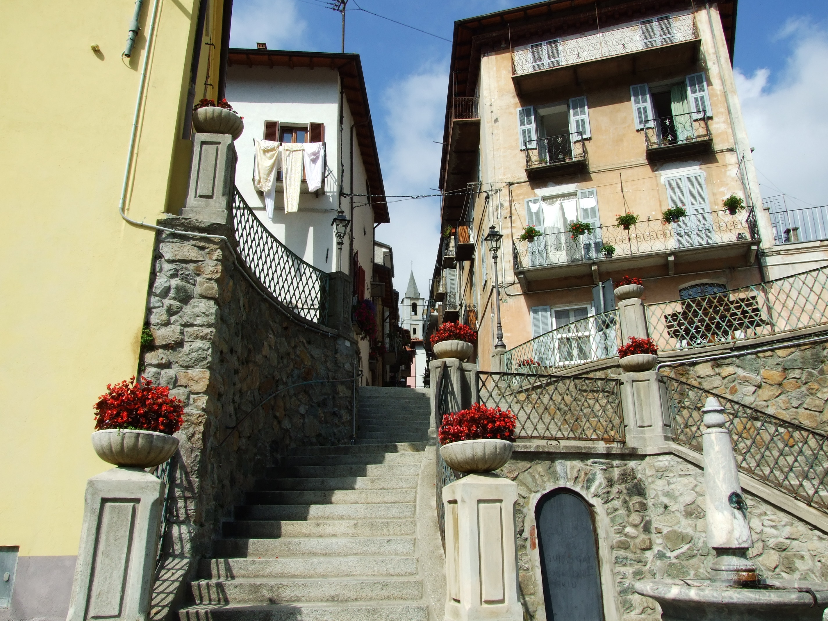 Ormea